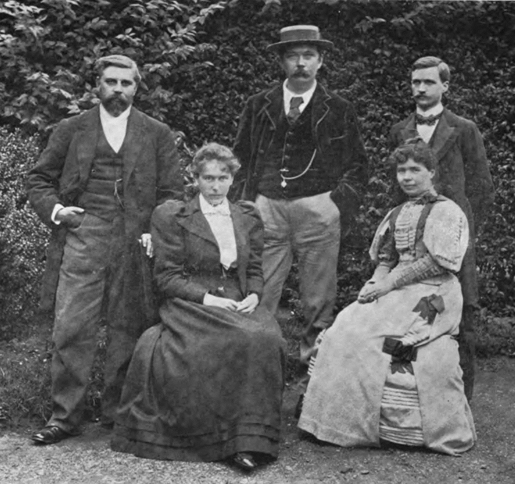 "Robert Barr, Miss Doyle, Conan Doyle, Mrs. Conan Doyle, Robert McClure"